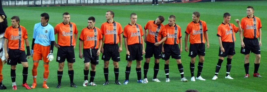 KSZO Ostrowiec players before match against Sandecja Nowy Sącz at 3rd September 2008